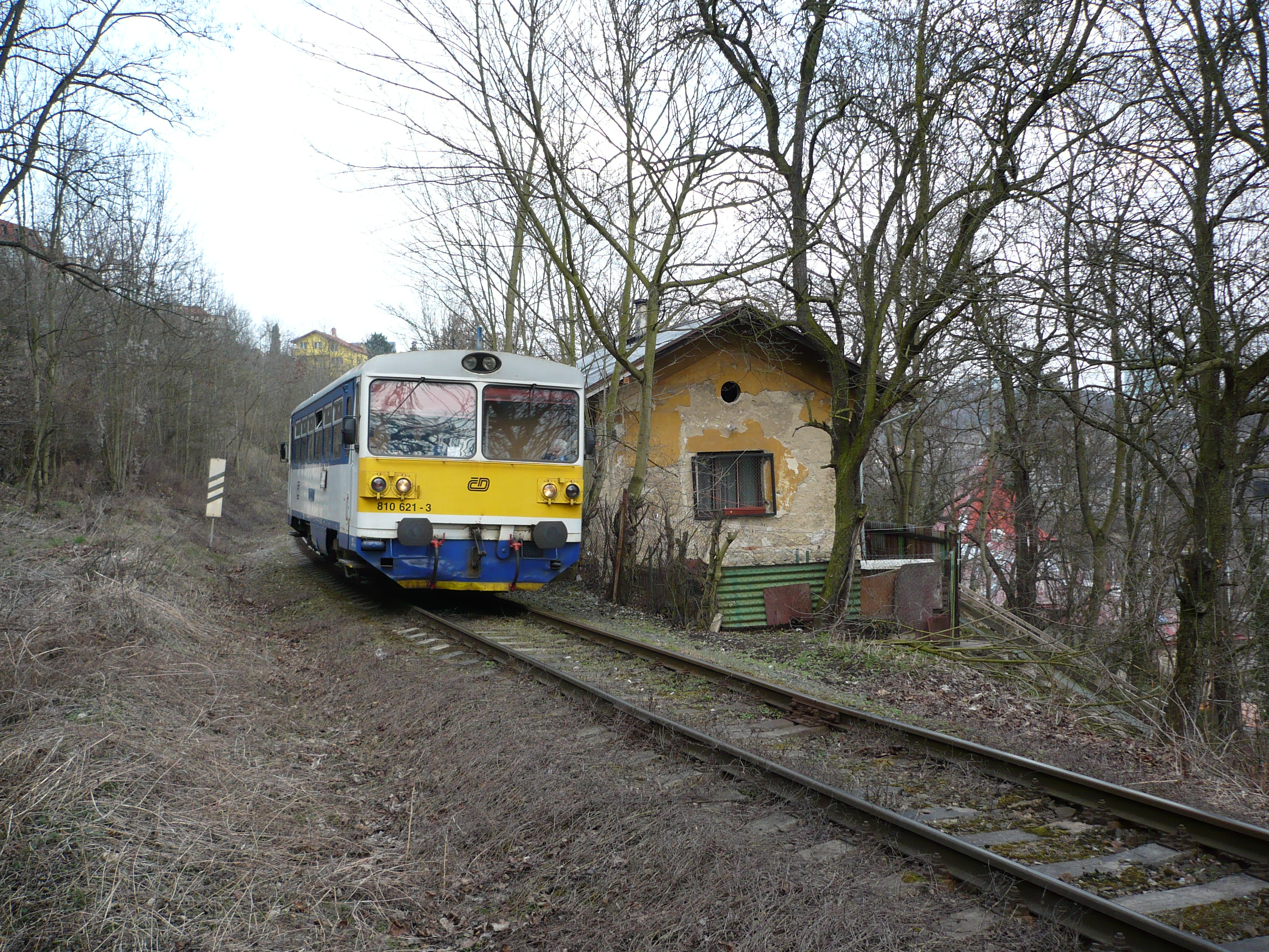 Train no 25908 to Hostivice passing a former watchmans house south from Praha Smíchov (km 3.1)